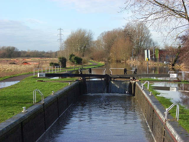 Fobney Lock, on the River Kennet in Reading, England. For more information see the Wikipedia article Fobney Lock.